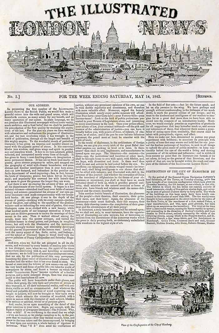 The Illustrated London News, 1842-05-14, front page of the first edition